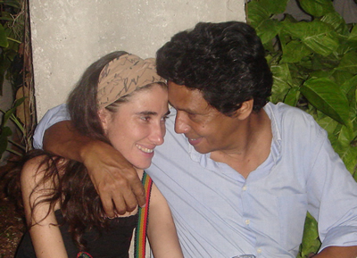 Yoani Sánchez and Reinaldo Escobar.